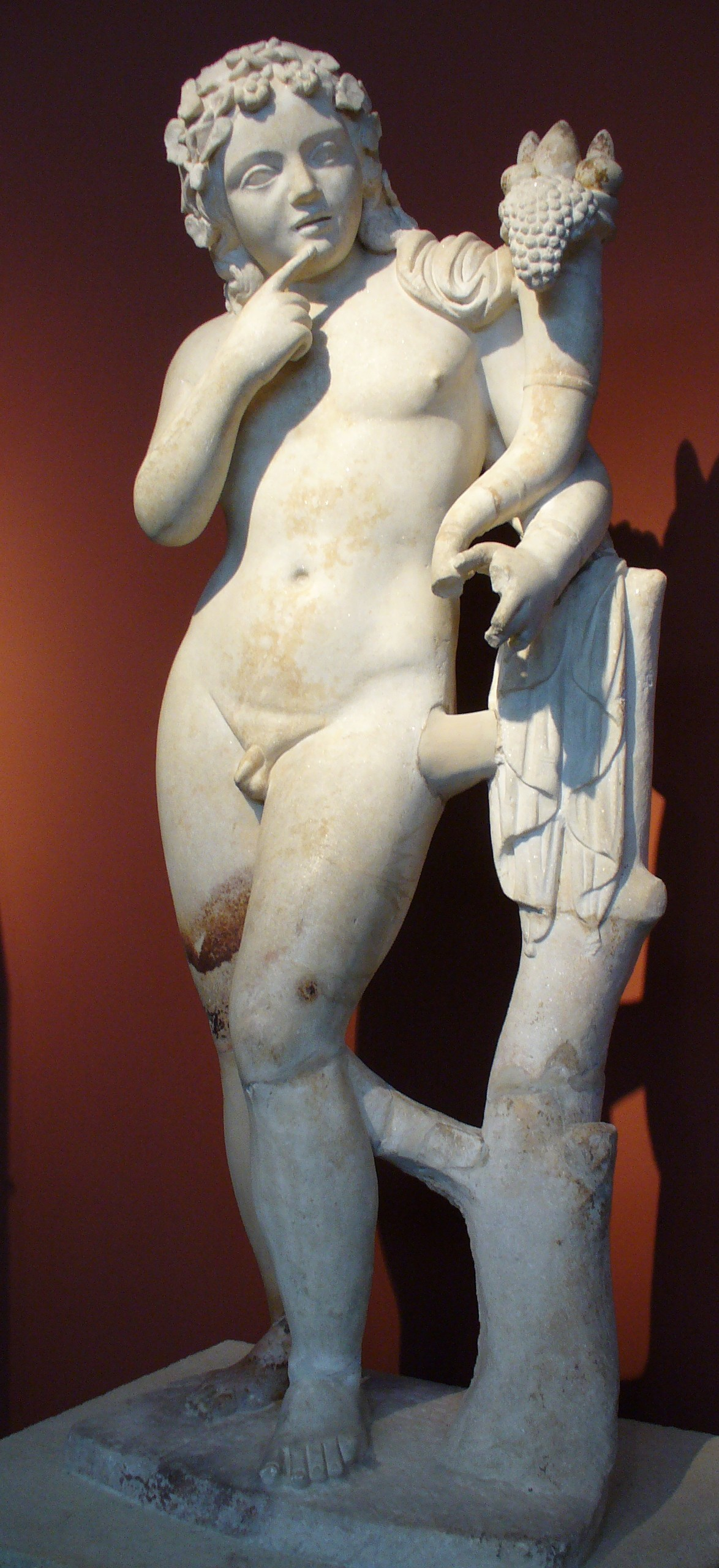 The Hellenistic god Harpocrates, in Salonica's Archaeological Museum.